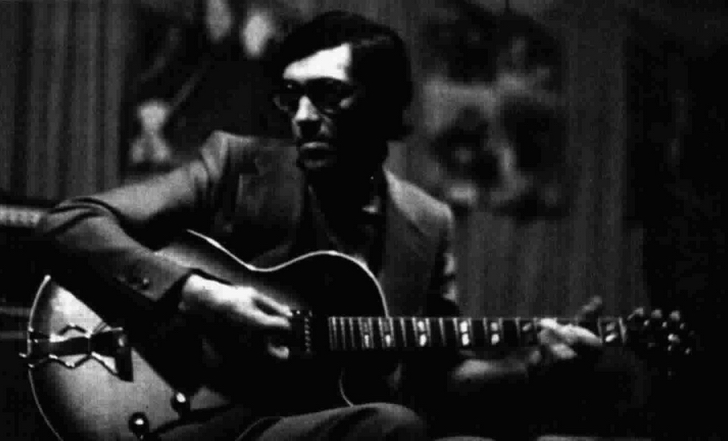 Italian musician Franco Cerri, guest in the show Adesso musica